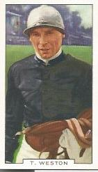 The image of Tommy Weston in the Earl Derby colours is from a set of cigarette cards issued in 1936 by Gallahers.